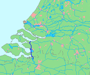 Location of a waterway (river/canal) in the Netherlends